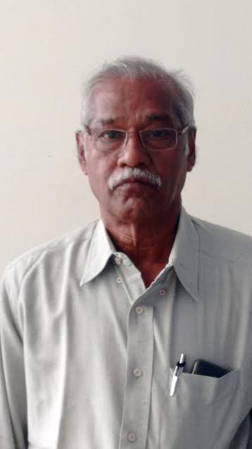 Dr k rangan முனைவர் கி.அரங்கன்